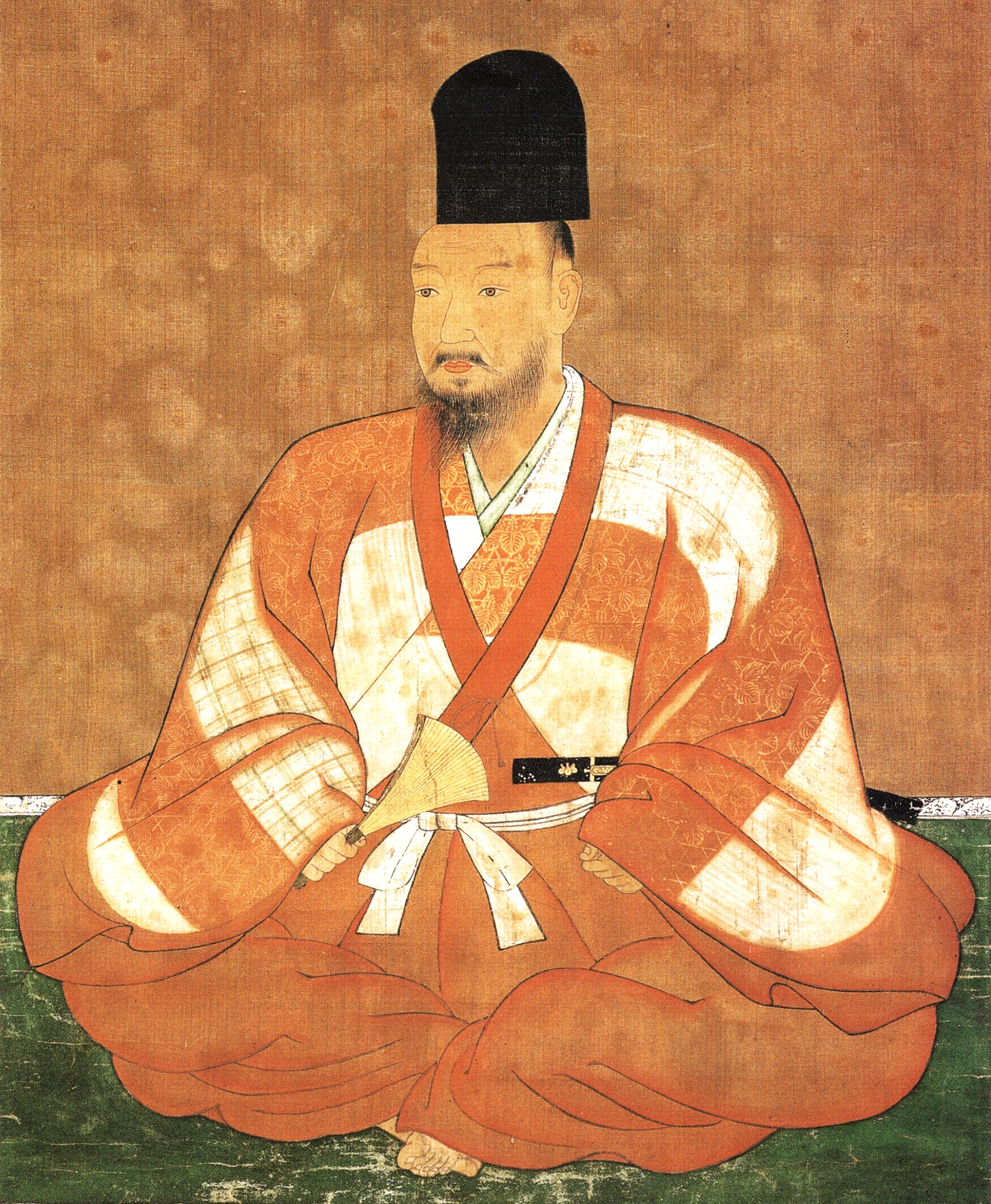 Portrait of Ashikaga Yoshiteru